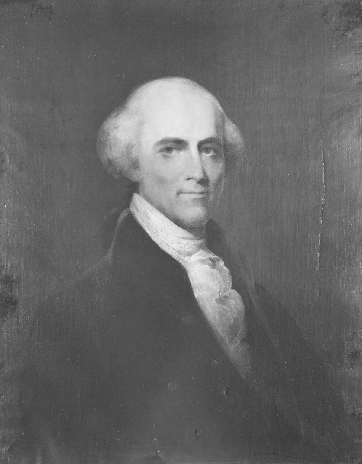 Title:Baron Henri Joseph Stier. Author/Artist:Anonymous, Flemish School, active 18th century, attributed to, copy of. Creation Date:1835 Description:Graphic reproduction(s) with documentation of a painting. 30 1/2 x 24 in. (sight). oil on canvas.